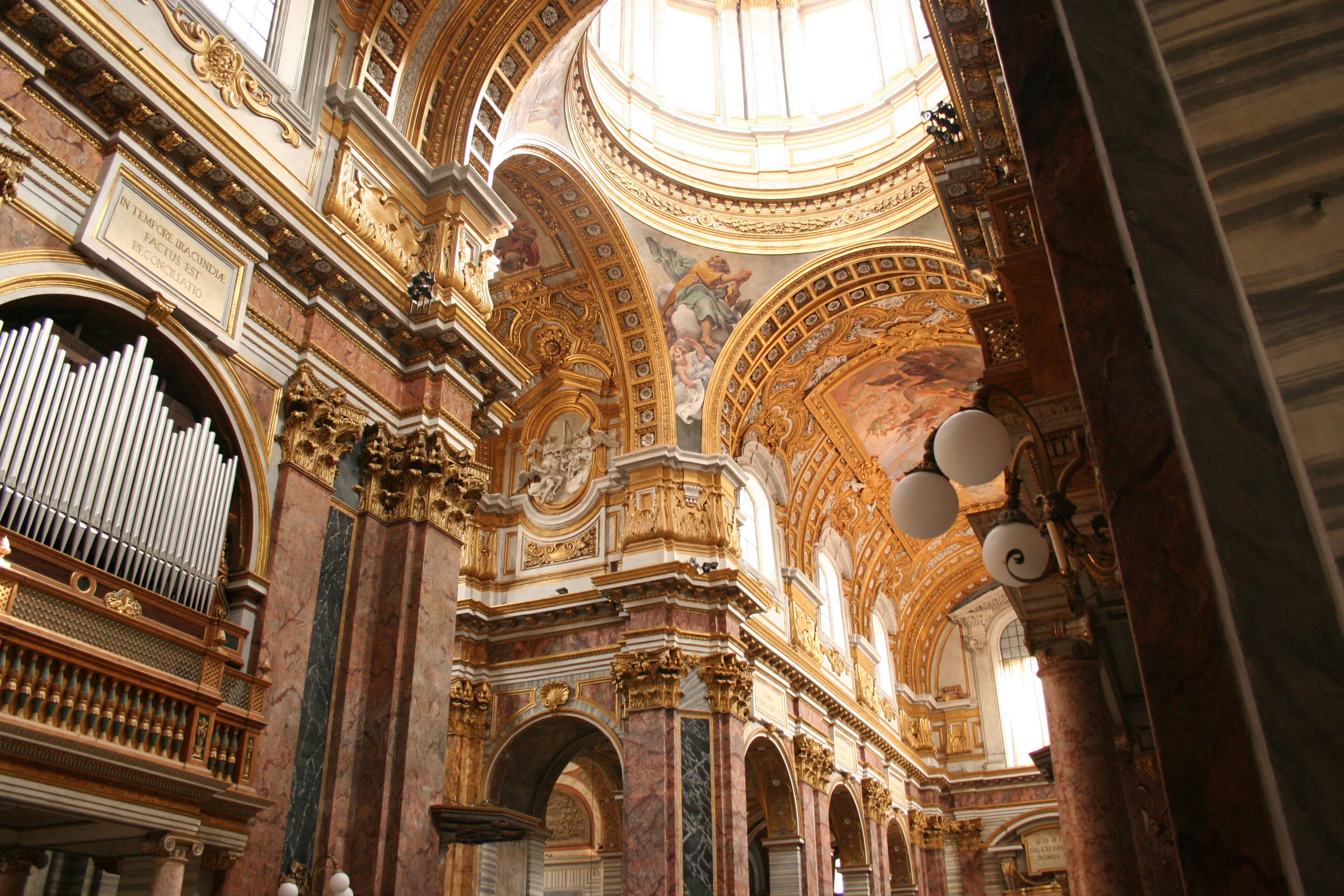 An interior view of the Basilica San Ambrogio e Carlo al Corso in Rome. From the ambulatory the view extends into the crossing, the nave and the right transept.